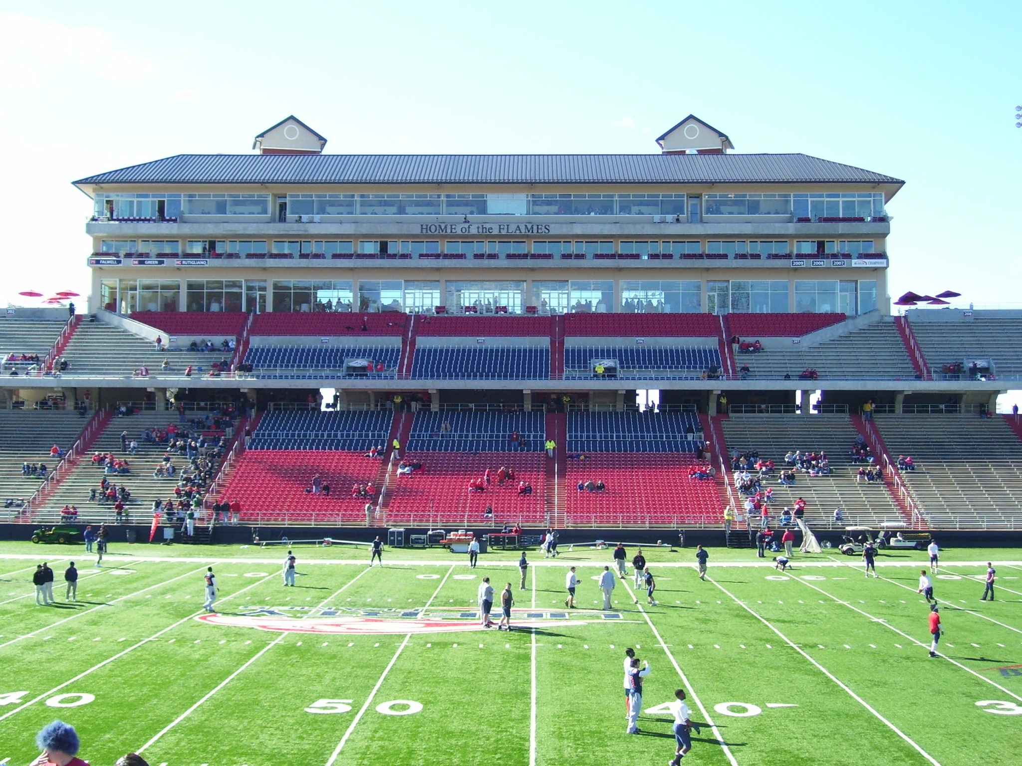 Williams Stadium in Lynchburg, VA